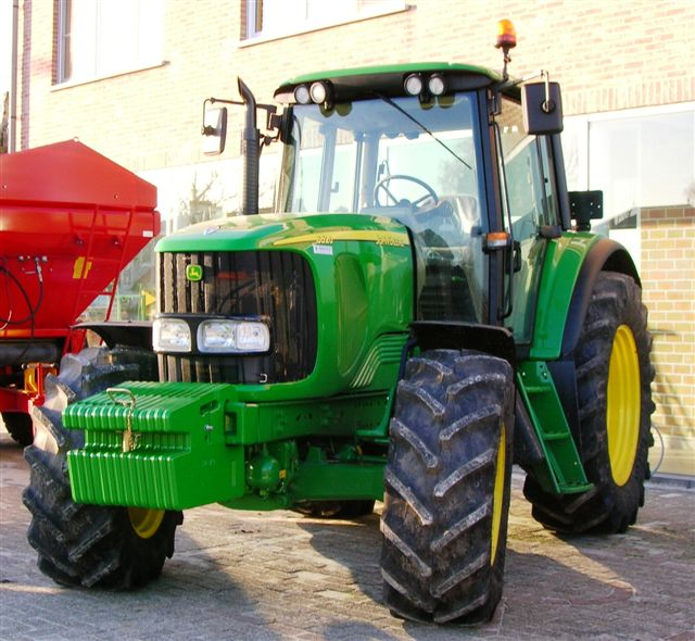 John Deere 6620 tractor